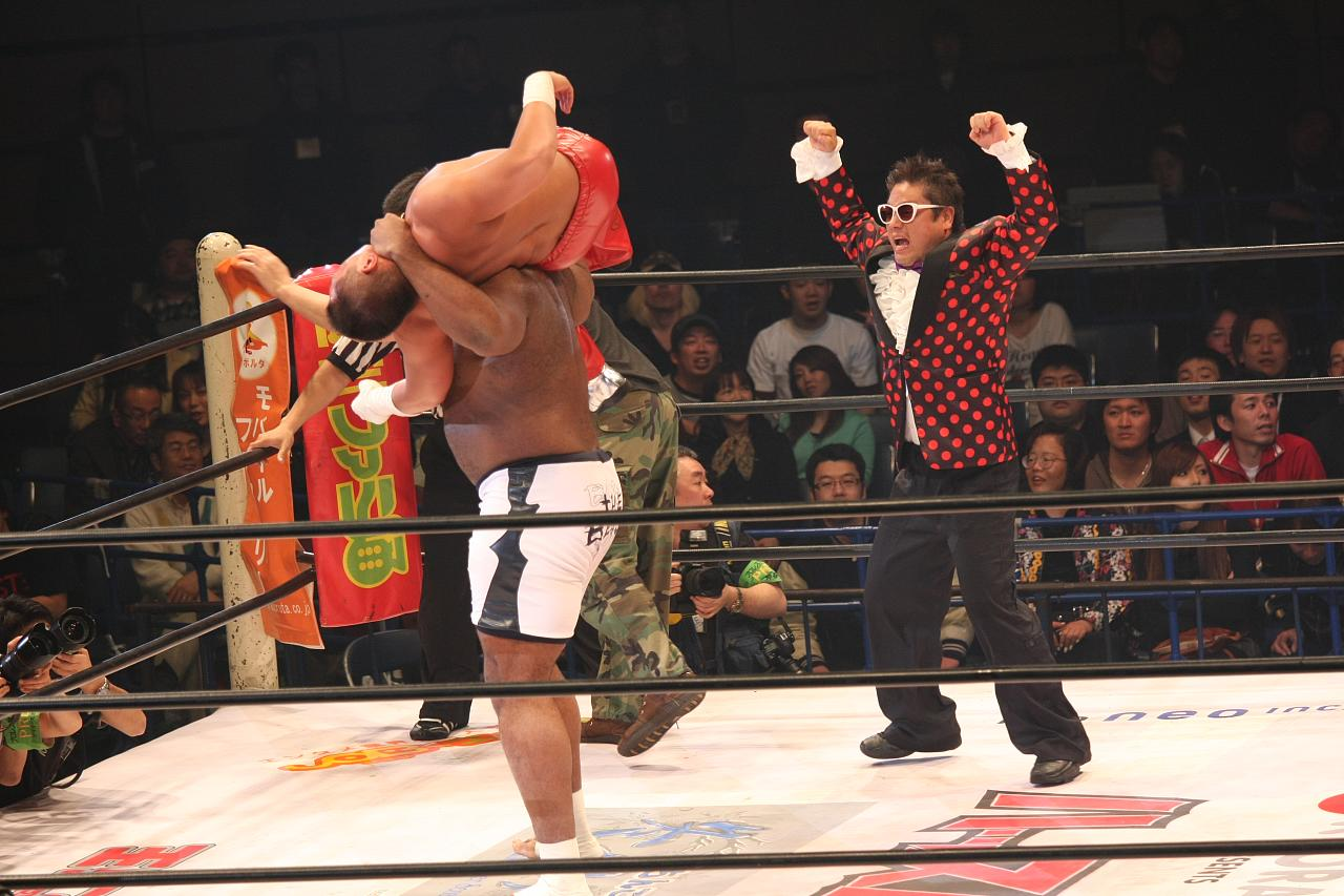 Sapp executing an Argentine backbreaker rack on Wataru Sakata